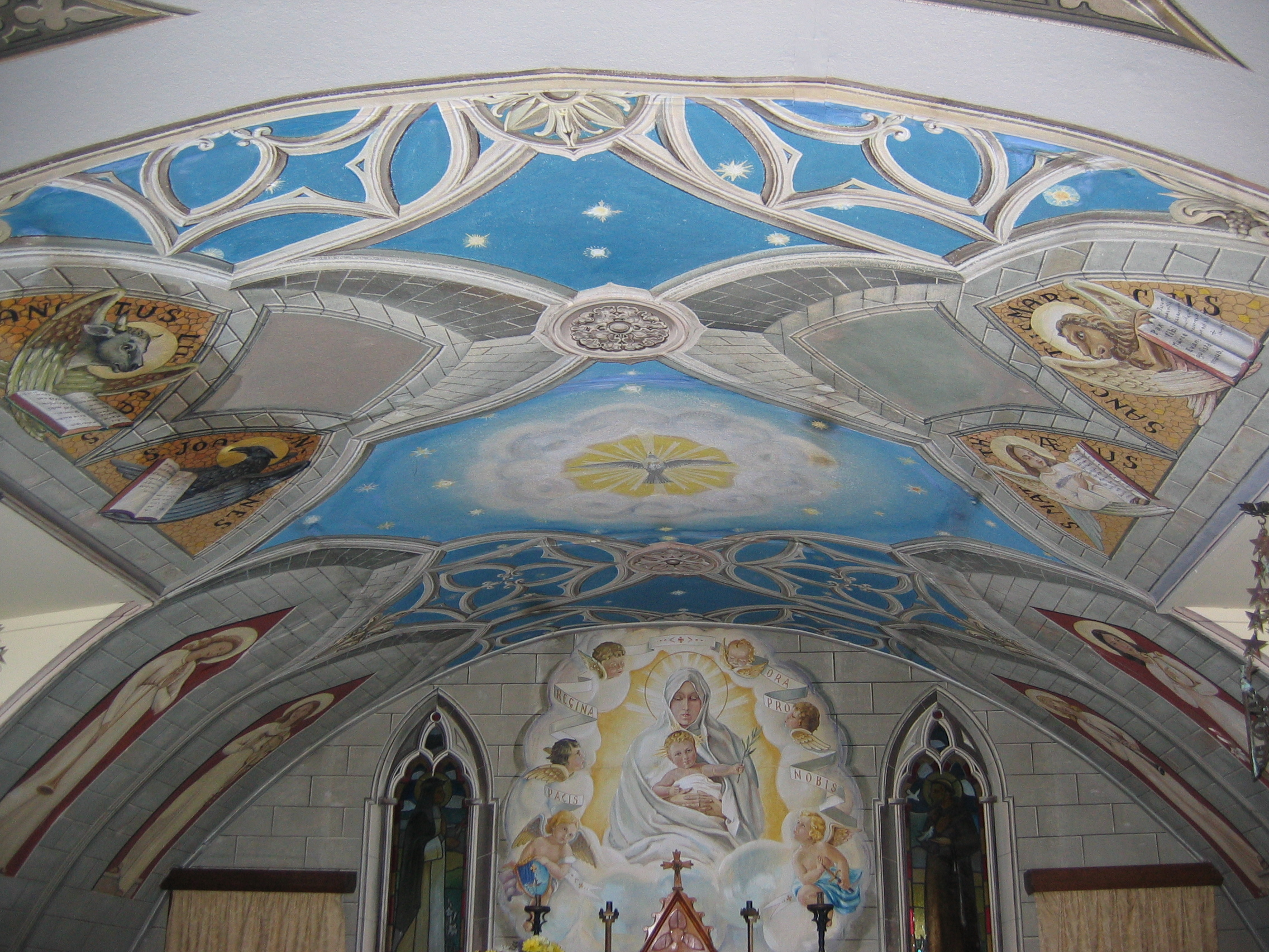 Italian Chapel, Lamb Holm, Orkney, Scotland, with dove of Holy Spirit and symbols of the four Evangelists on ceiling, and Virgin Mary and infant Jesus on wall.